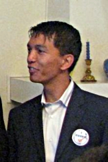 Andry Rajoelina, Mayor of Madagascars capital city Antananarivo and the countries main opposition leader, at an event related to the U.S. presidential election 2008 in the embassy of the U.S. in Antananarivo